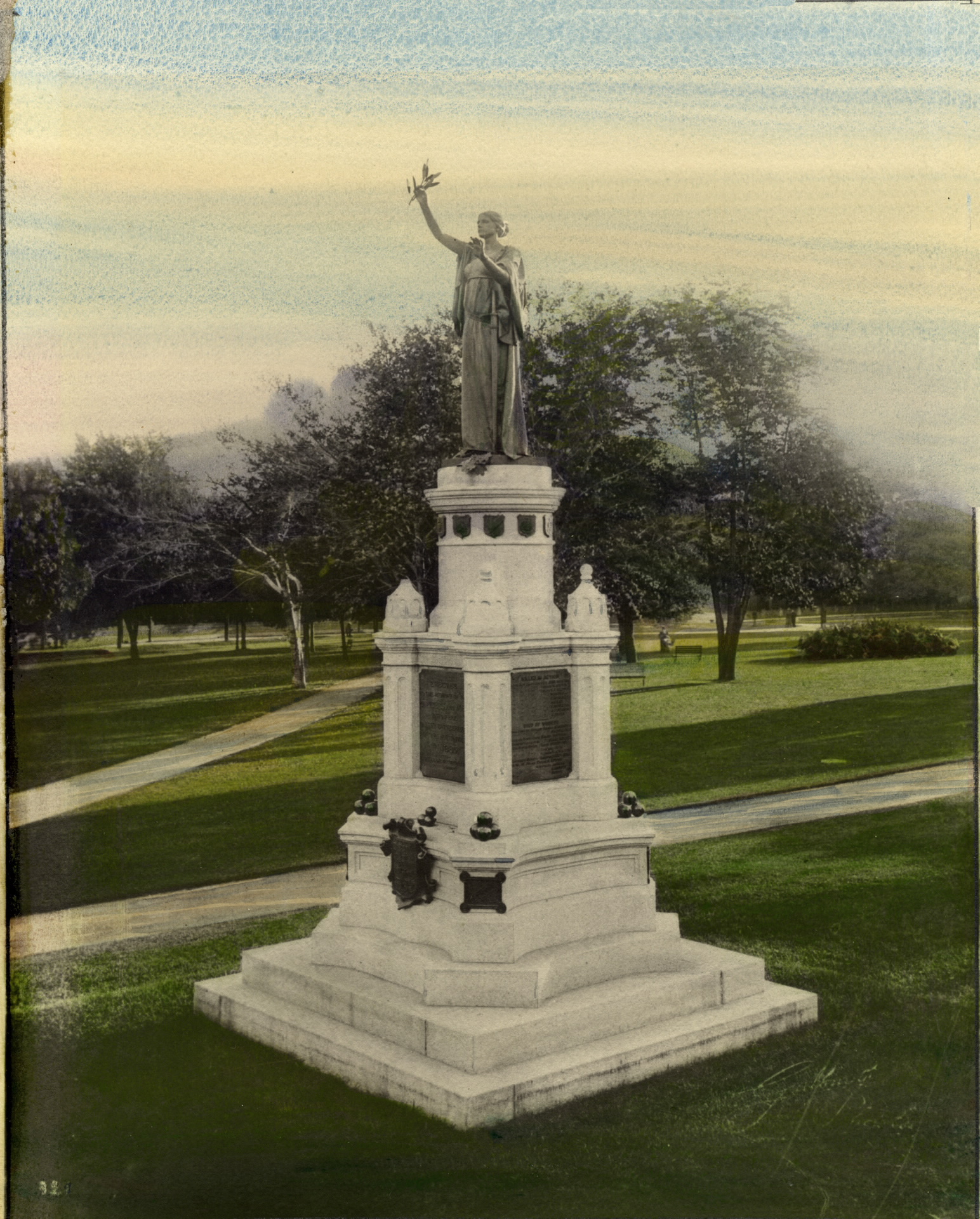 A photo of the North-West Rebellion Monument in Queen's Park, Toronto